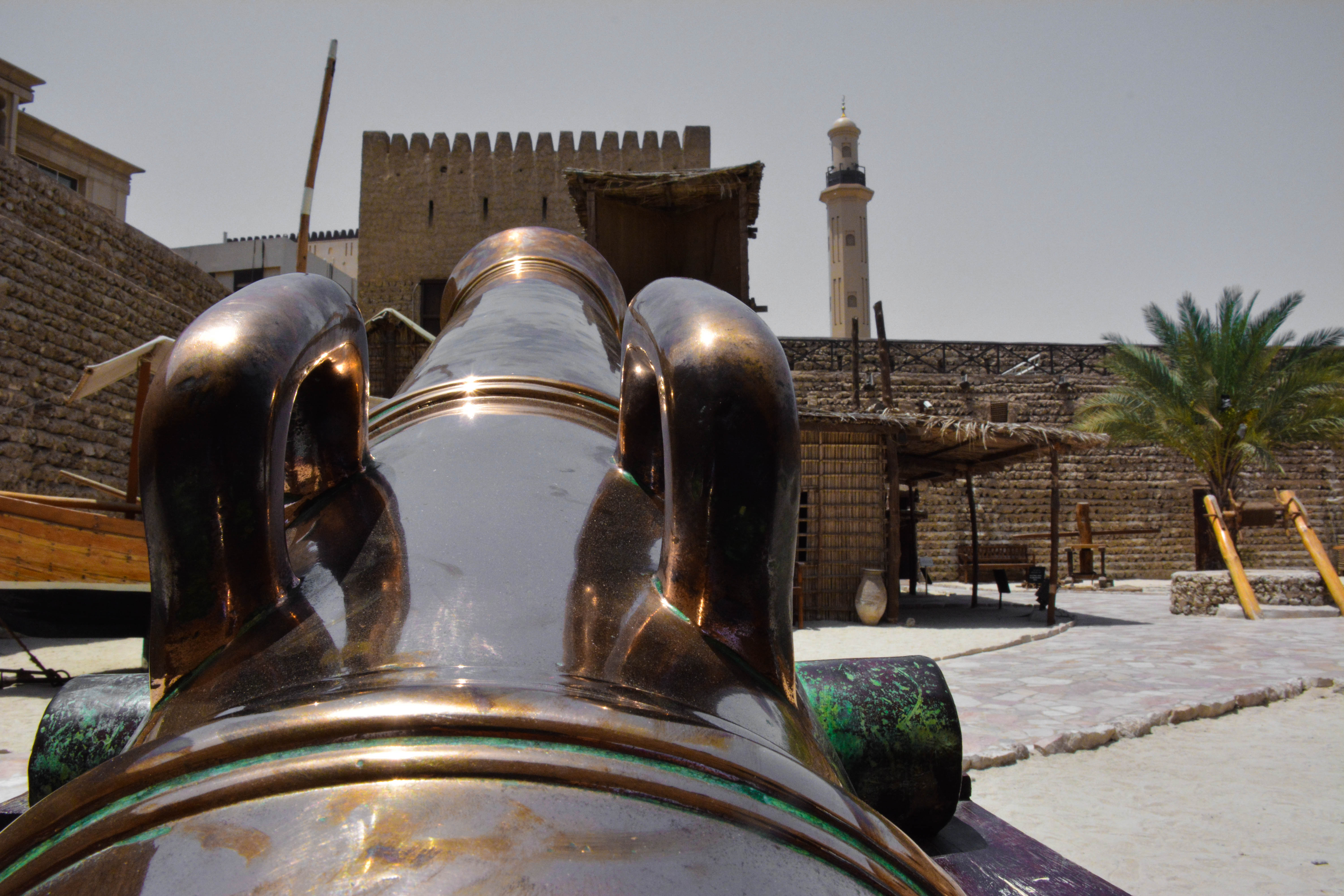 Cannon in Dubai Museum